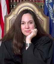 Photo of Justice Joette Katz of the Connecticut Supreme Court in 2008, author: John Marinelli, used with the permission of John Marinelli under a Creative Commons Attribution-Sharealike 3.0 Unported License